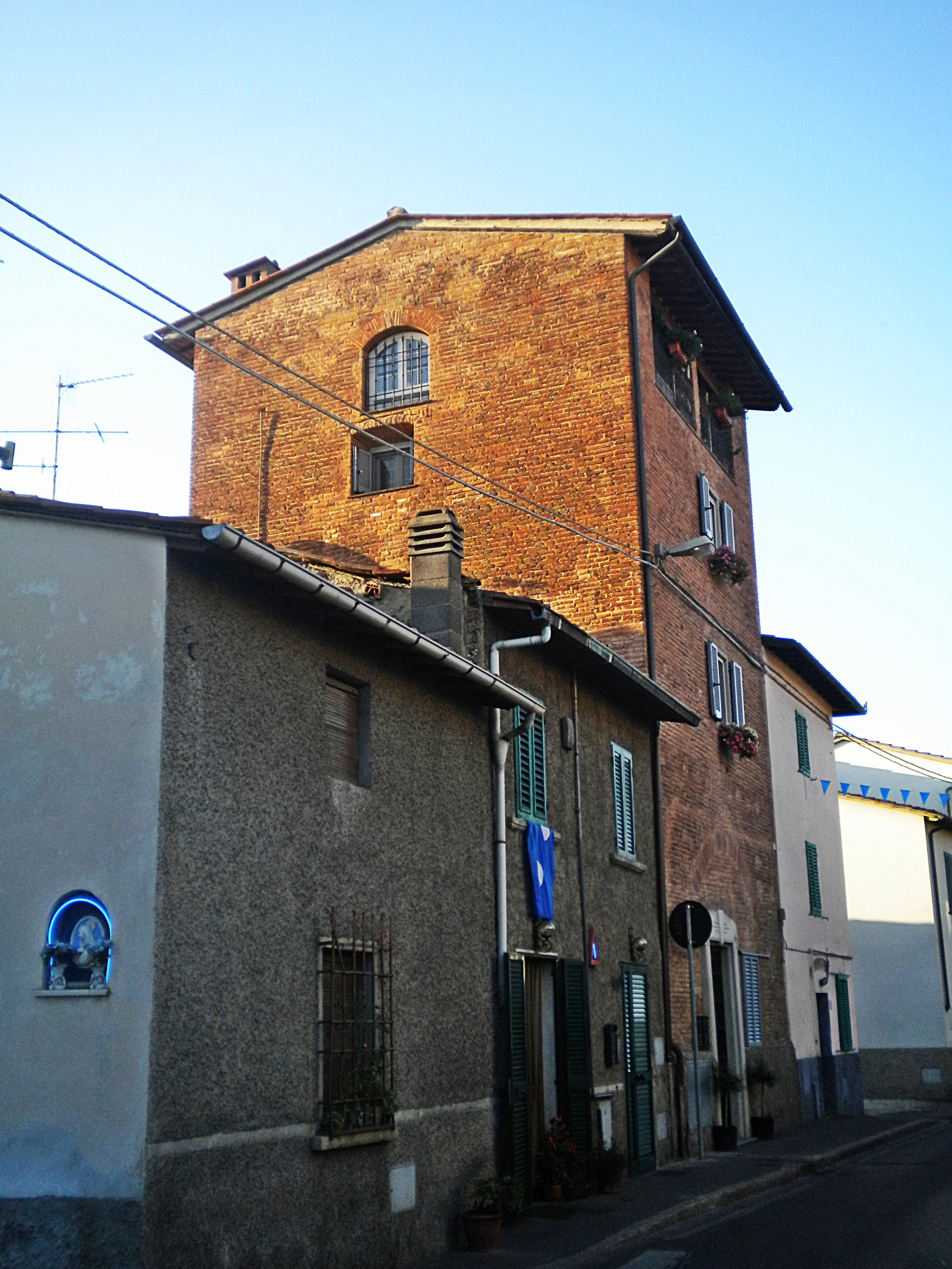 old tower